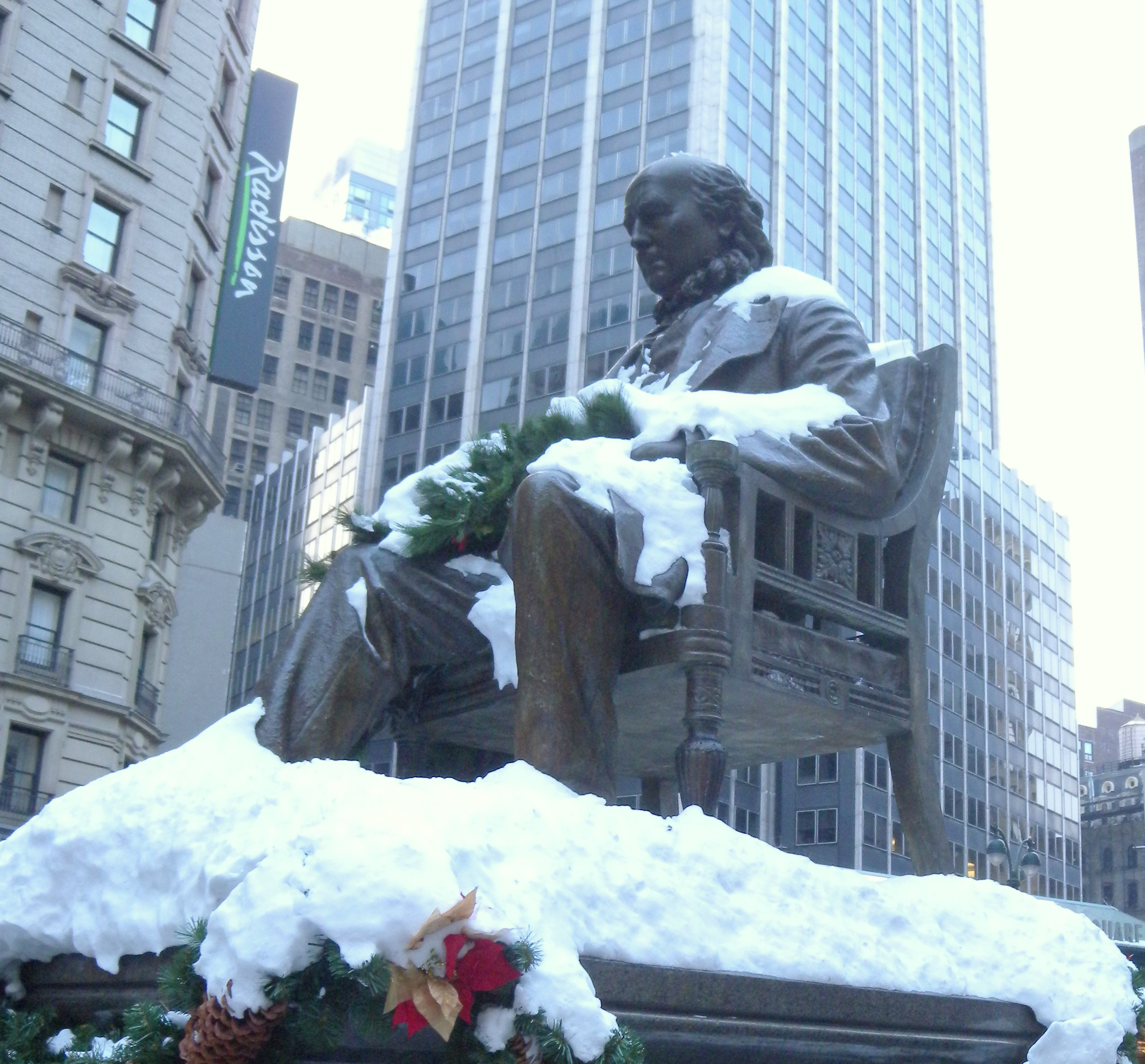 Cropped and lightened version of Horace Greeley in snow.